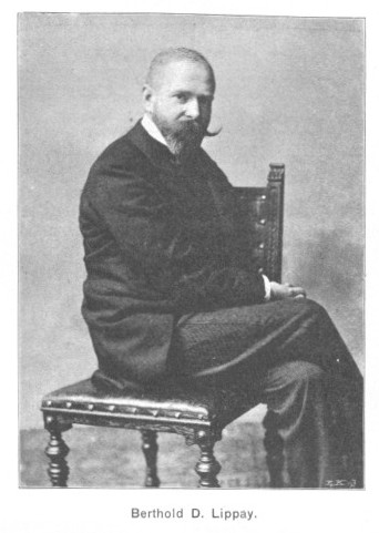 Photo of Berthold Dominik Lippay (1864-1920), Austrian portrait painter.